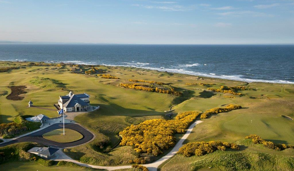 Official photo of Kingsbarns Golf Links clubhouse and surrounding holes, taken by Iain Lowe at Iain Lowe Photography in 2020.